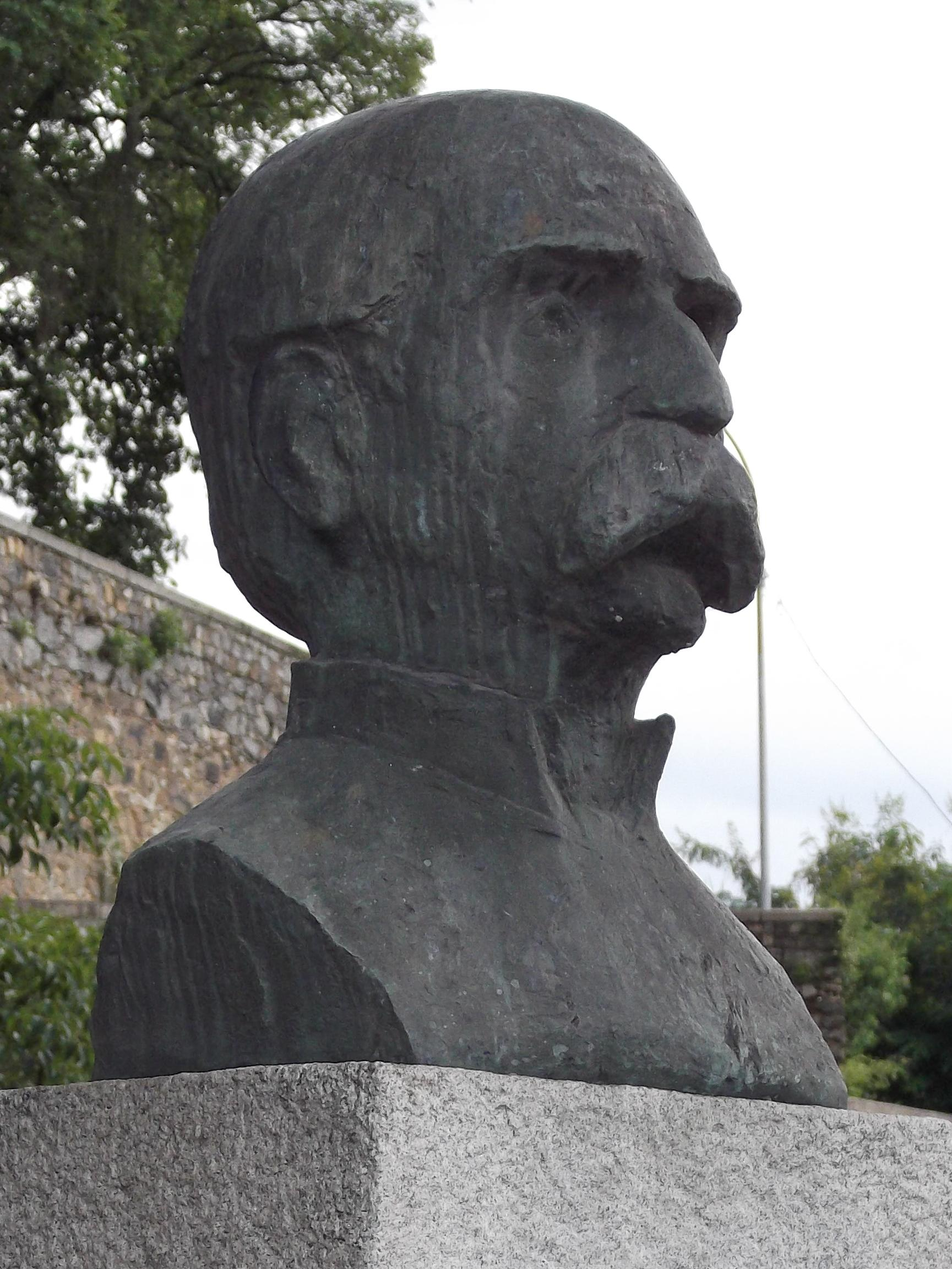 Bust of Teixeira Mendes. Gloria, Rio de Janeiro city, Brazil.